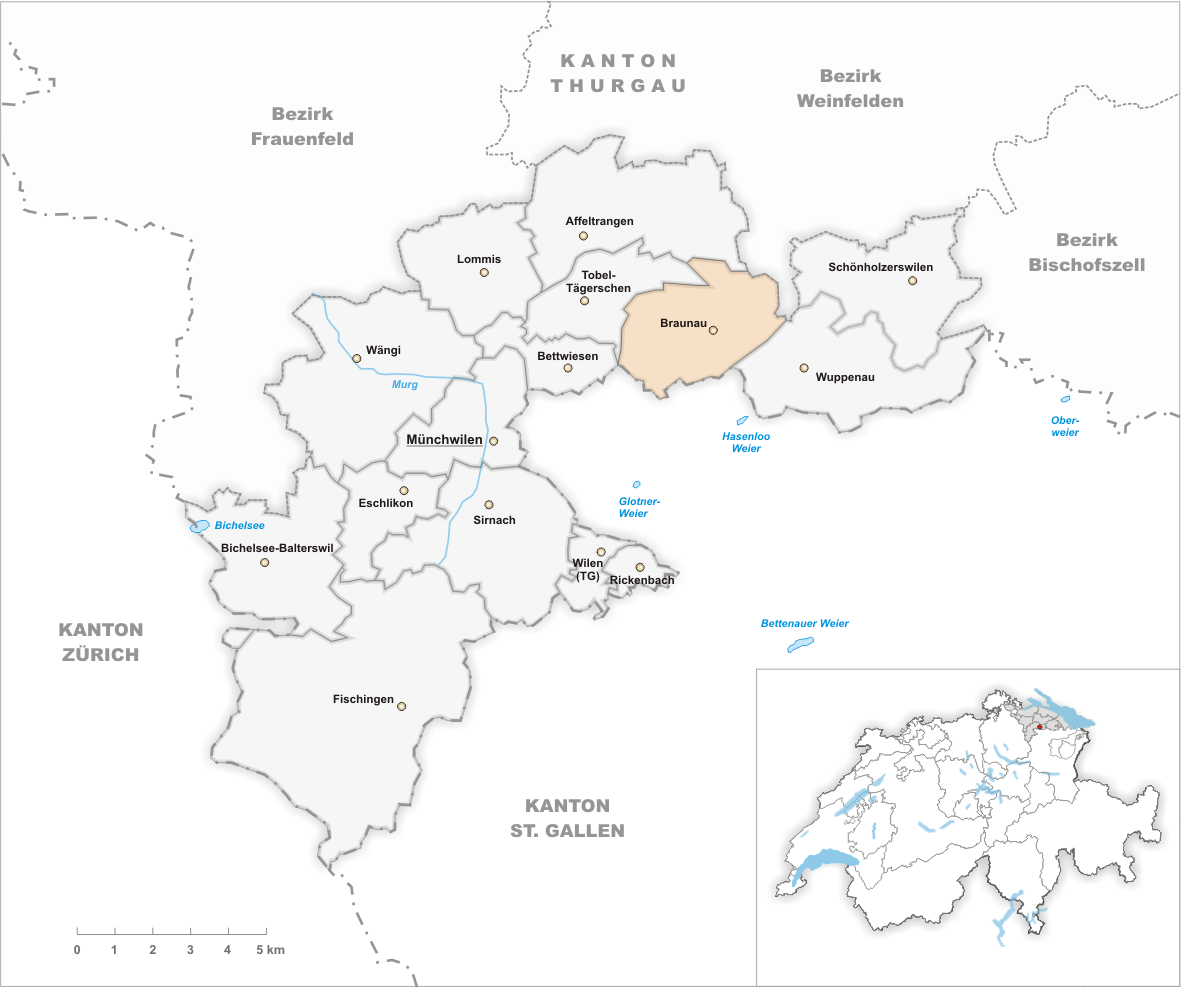 Municipality Braunau